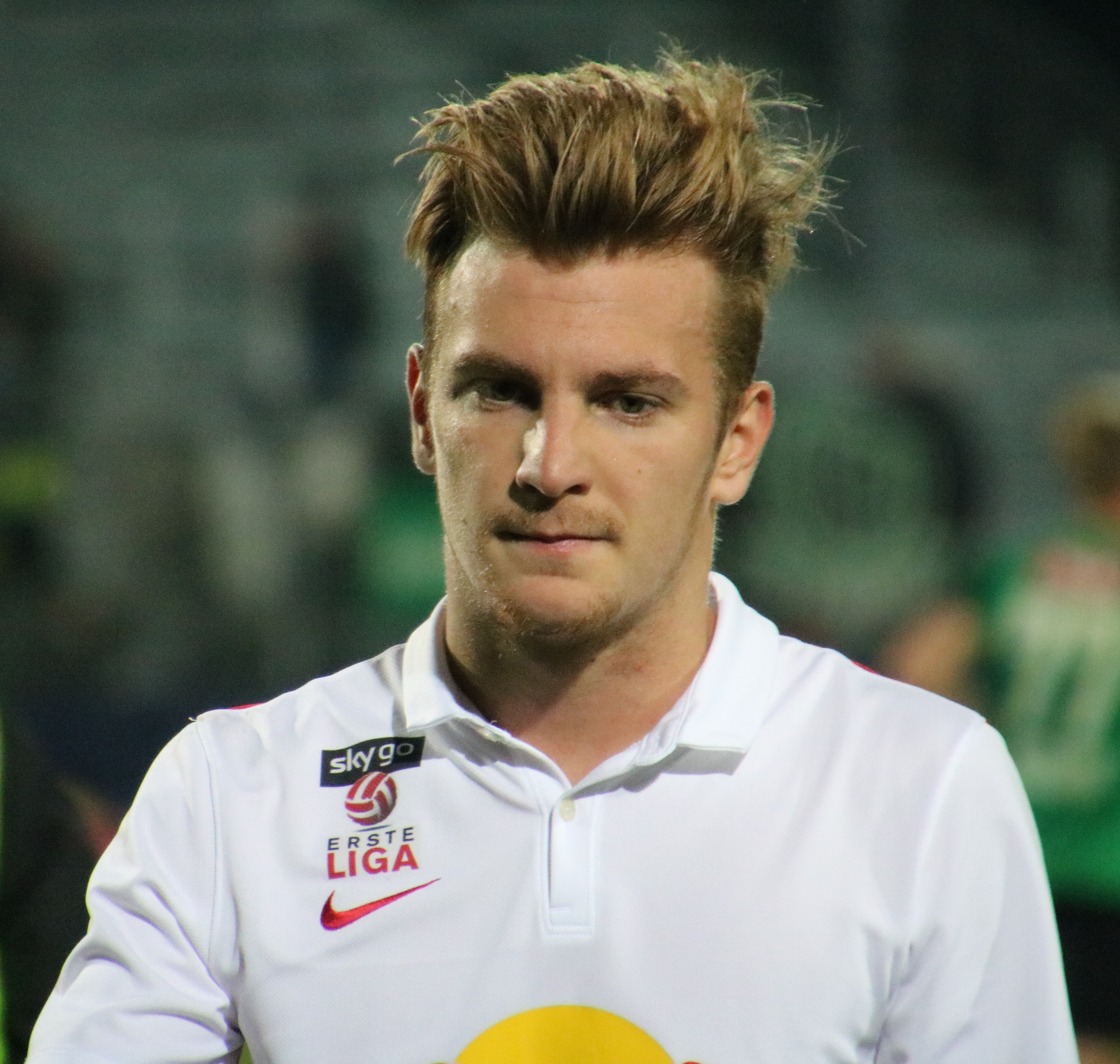 league match Austria 2nd league